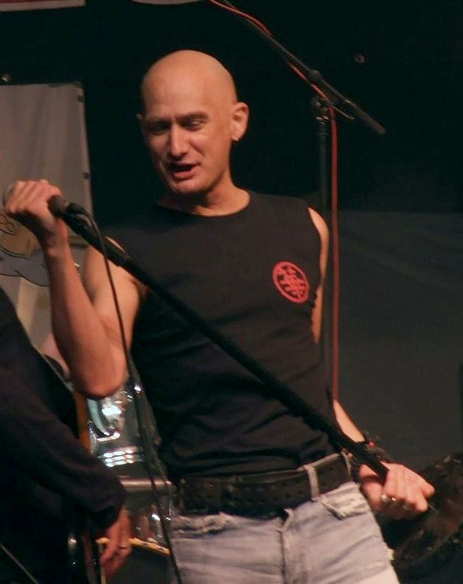 László Bódi (1965–2013) in 2010